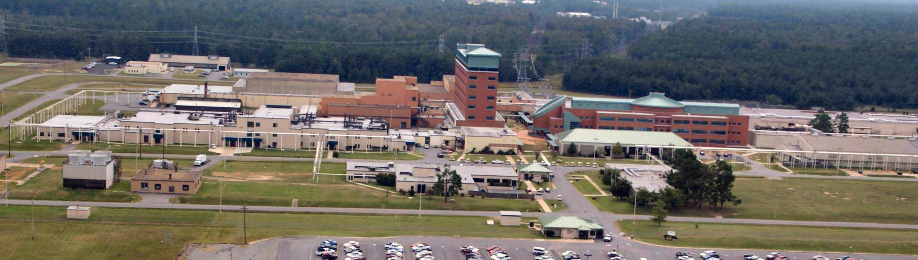 Aerial view of the Jefferson Laboratories of the FDA campus. The campus houses all NCTR operations, as well as the Arkansas Regional Laboratories (ARL), an FDA Office of Regulatory Affairs (ORA) Southwest Region laboratory. The National Center for Toxicological Research (NCTR) is FDA's internationally recognized research center. The unique scientific research expertise of NCTR is critical in supporting FDA product centers and their regulatory science roles. For more about NCTR, read the Consumer Update at